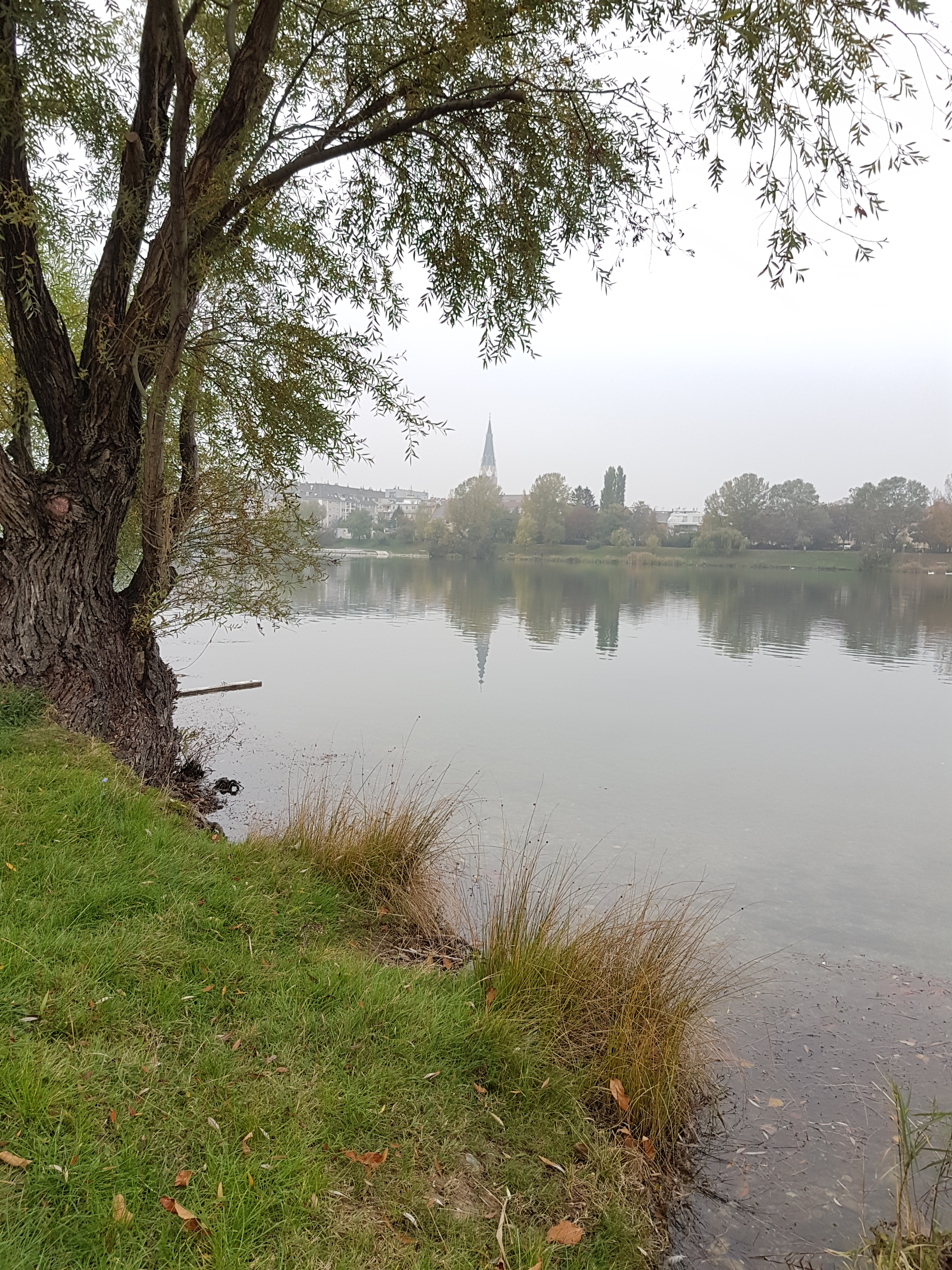 Habitus Taxonym: Scirpoides holoschoenus ss Fischer et al. EfÖLS 2008 ISBN 978-3-85474-187-9 Location: Dragonerhäufel on Alte Donau, Vienna-Floridsdorf - ca. 160 m a.s.l. Habitat: shore